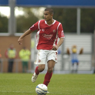 sansarawalsall